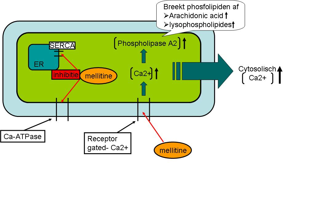 The targets of Mellitin in the cell